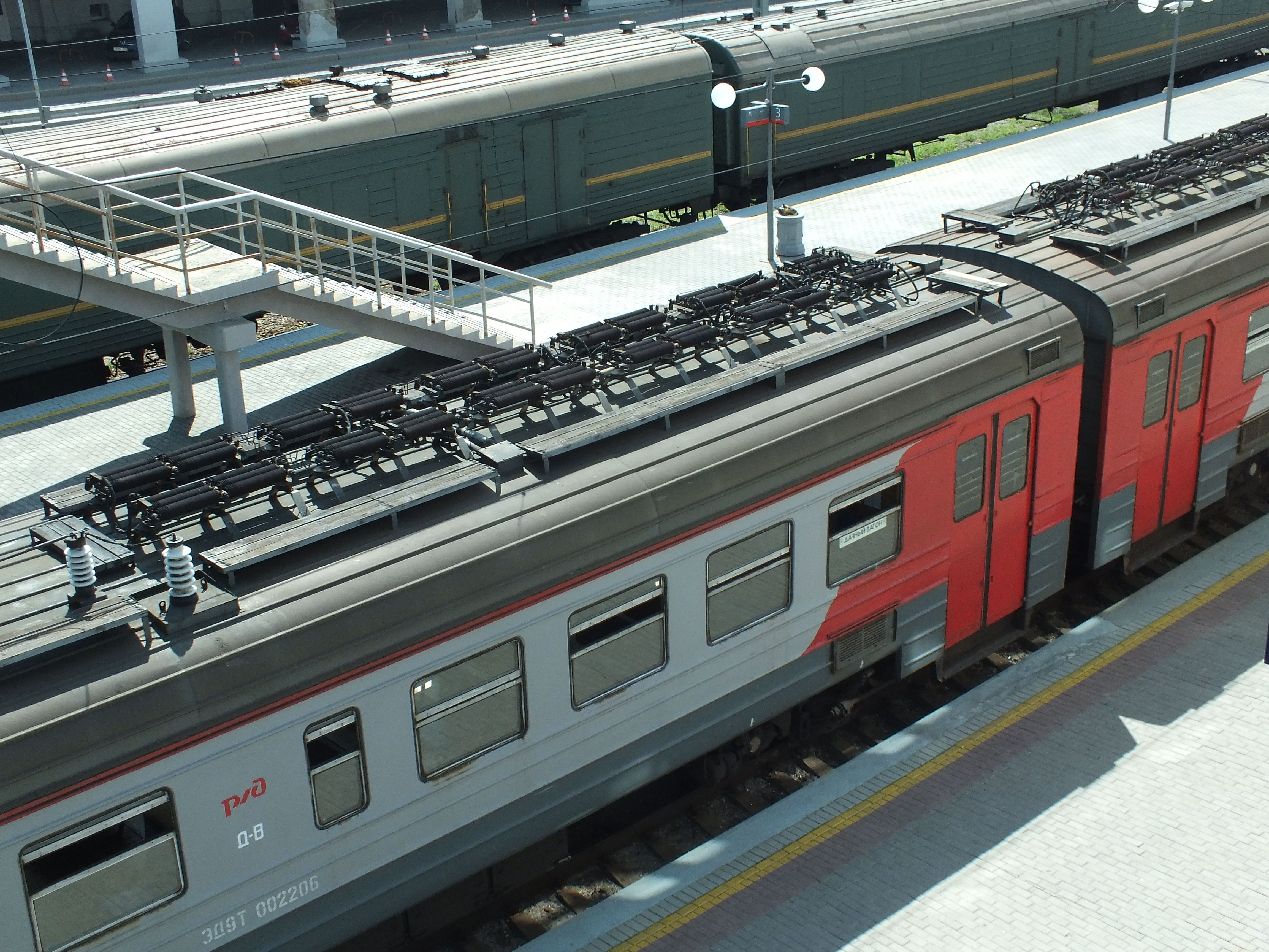 Electric multiple units ED9 (Kazan railway staition)